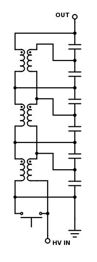 Vector inversion generator. HV IN charges the capacitor stack with alternating polarity, closing the switch (a spark gap in practice) allows every second capacitor to rapidly invert polarity due to the low reactance seen by a differential current flowing through the common mode chokes.